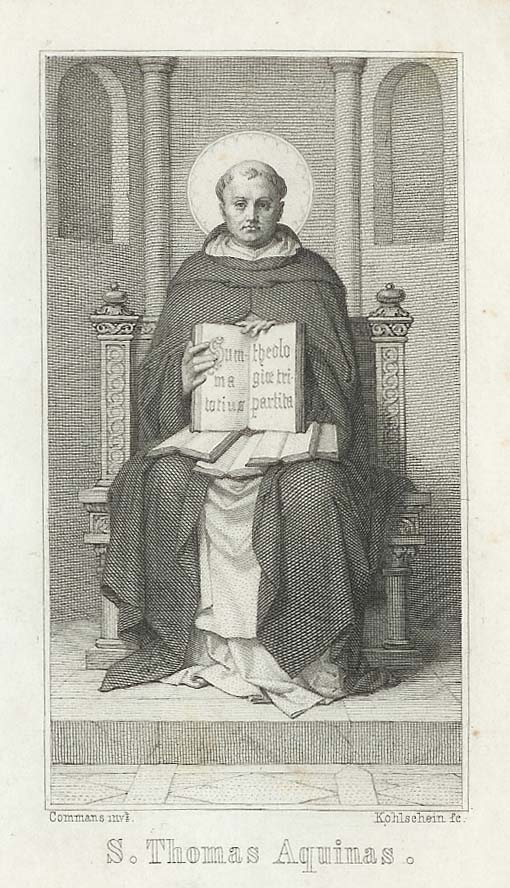 Thomas Aquinas